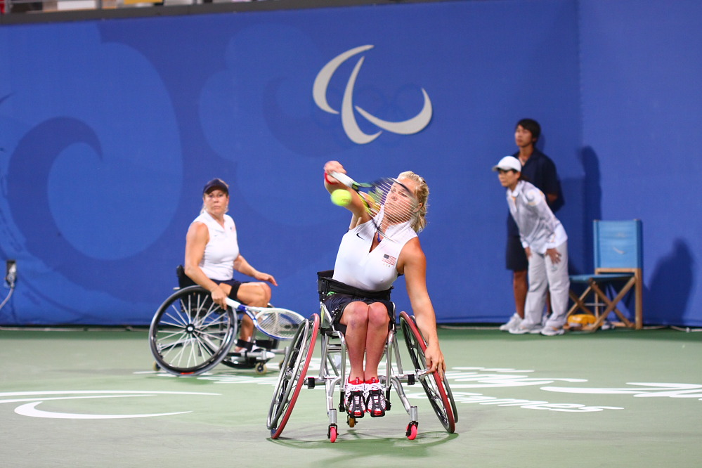 Paralympic wheelchair tennis tournament - Women's Doubles 3rd place